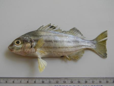 Pelates quadrilineatus collected in Mandapam(Palk Bay), India